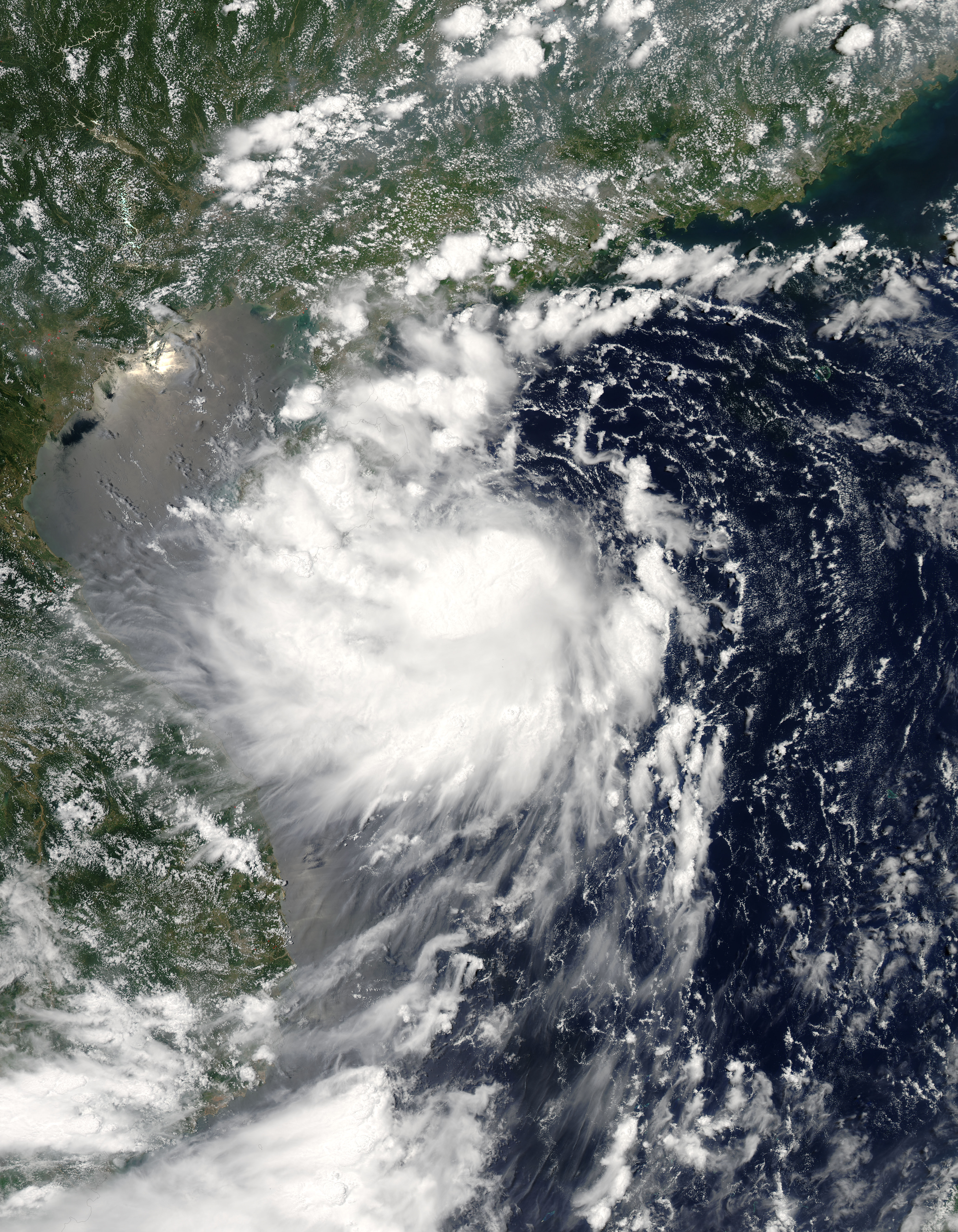 Tropical Storm Mirinae approaching Hainan, China on July 26, 2016.